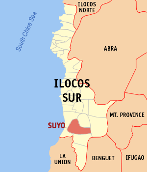 Map of Ilocos Sur showing the location of Suyo